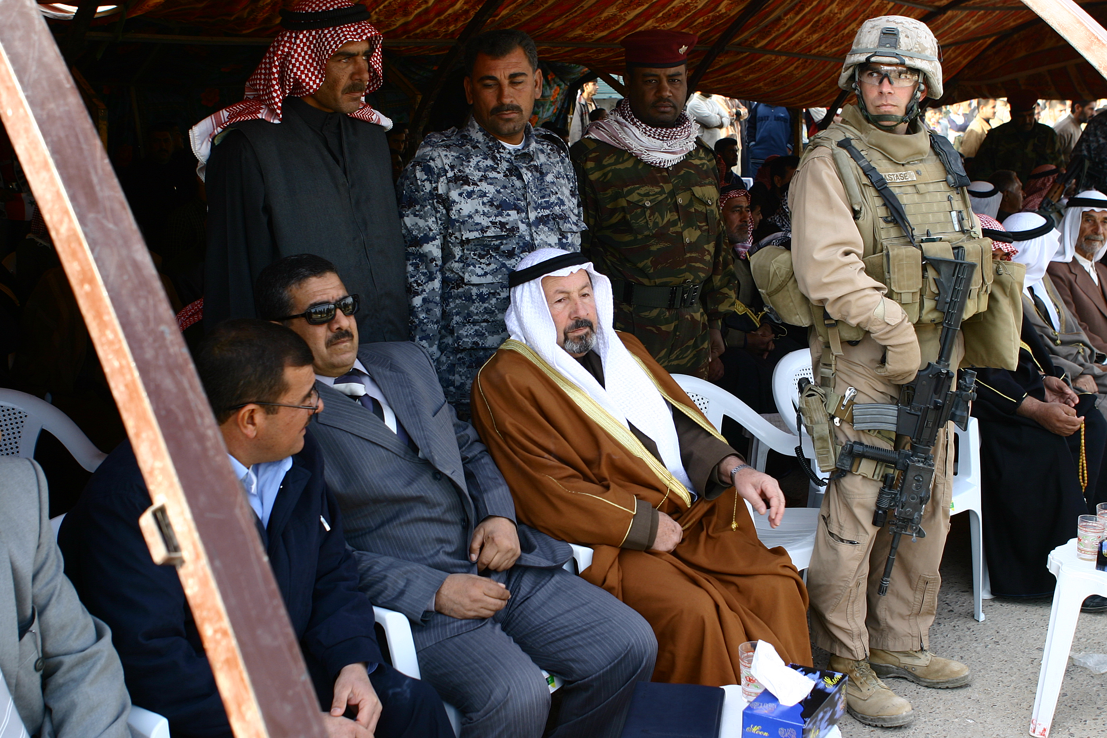 Sheik Mishen (center), a prominent tribal leader in Garma with Lt. Col. Nathan I. Nastase (right), the commanding officer of 3rd Battalion, 3rd Marine Regiment, Regimental Combat Team 6 during the reopening ceremony of the “Lollipop” Market in Garma, Iraq, Dec. 1. Coalition Forces joined Garma citizens and local dignitaries in the celebration of the market reopening, marking progress toward economic growth for the community.